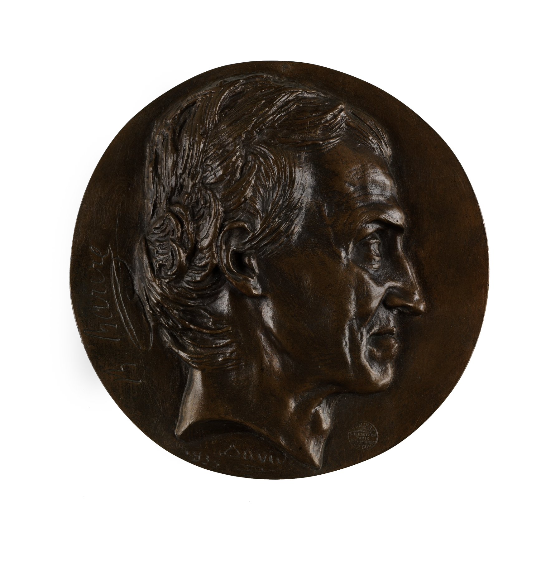 The artist has depicted Barère, a politician who was originally a monarchist but, after the failed attempt of Louis XVI and his family to escape France in 1791, became a republican and called for many executions, including that of Queen Marie Antoinette.